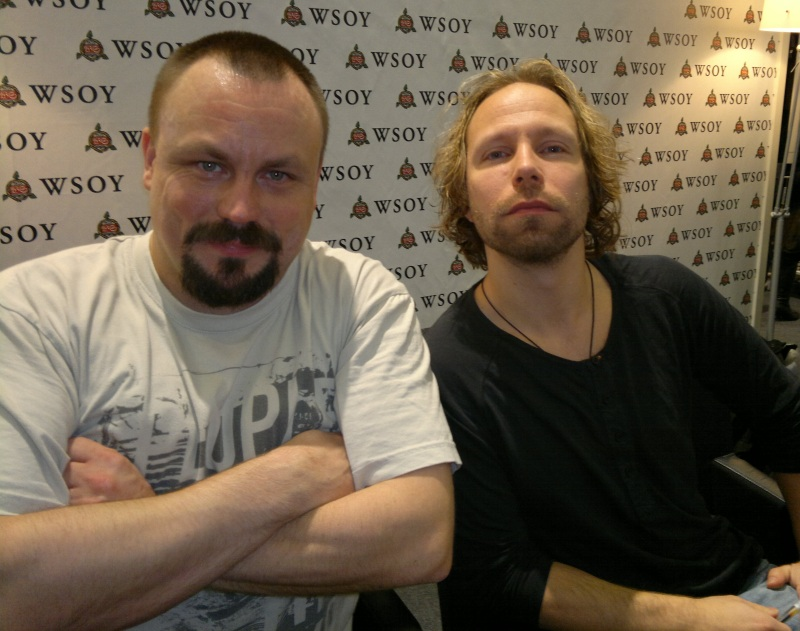 Riku Rantala and Tuomas Milonoff at the Helsinki Book Fair in October 2011.